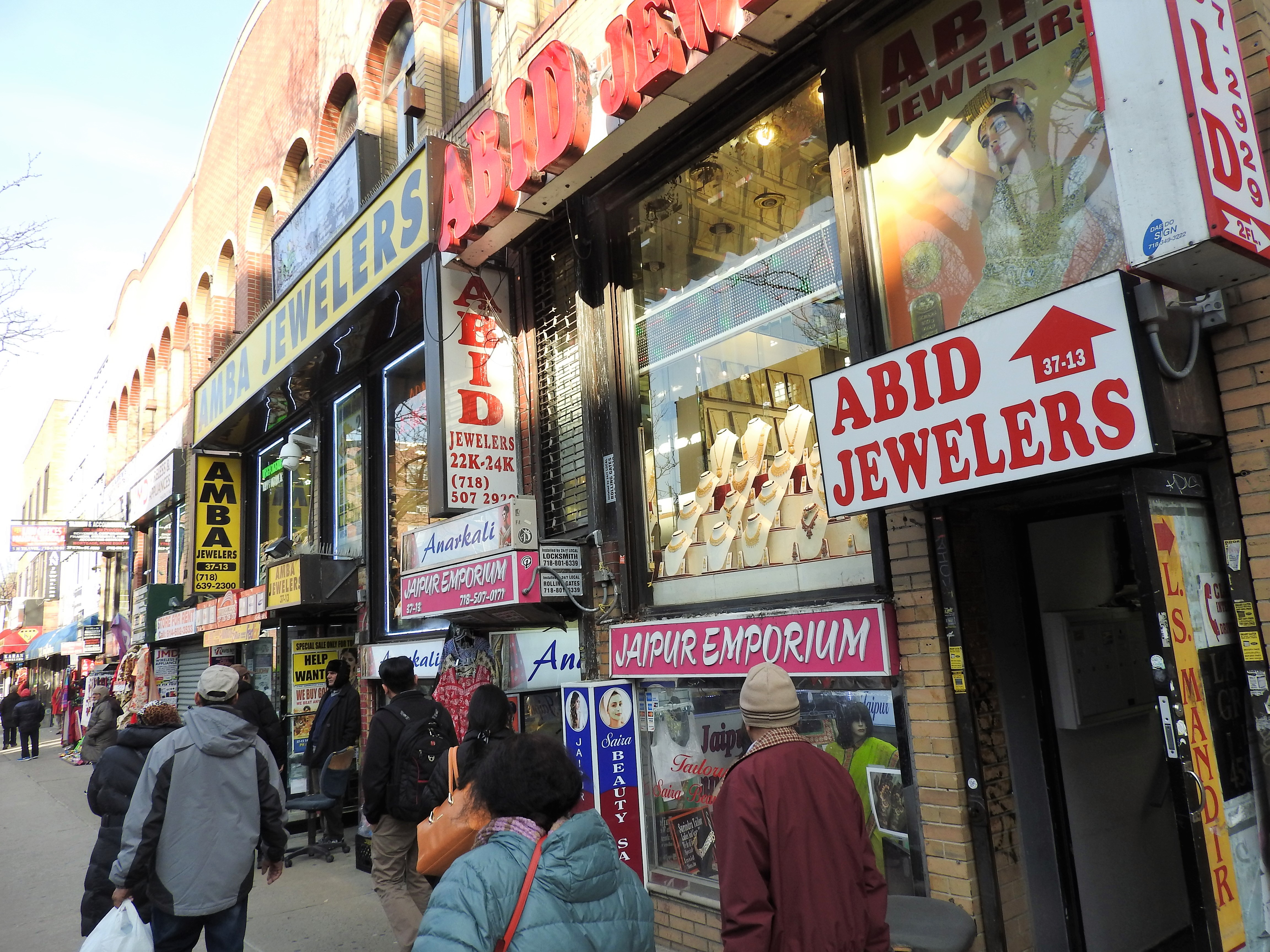 Looking north on shopping street